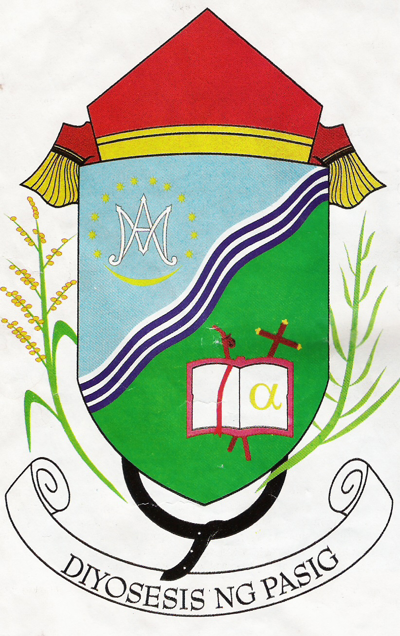 Thecoat of arms of the Diocese of Pasig